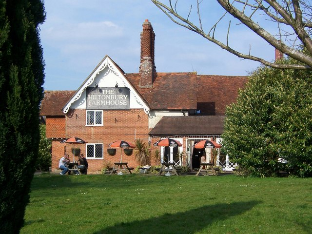 Farmhouse pub Hiltonbury Farm house (not Hiltingbury)